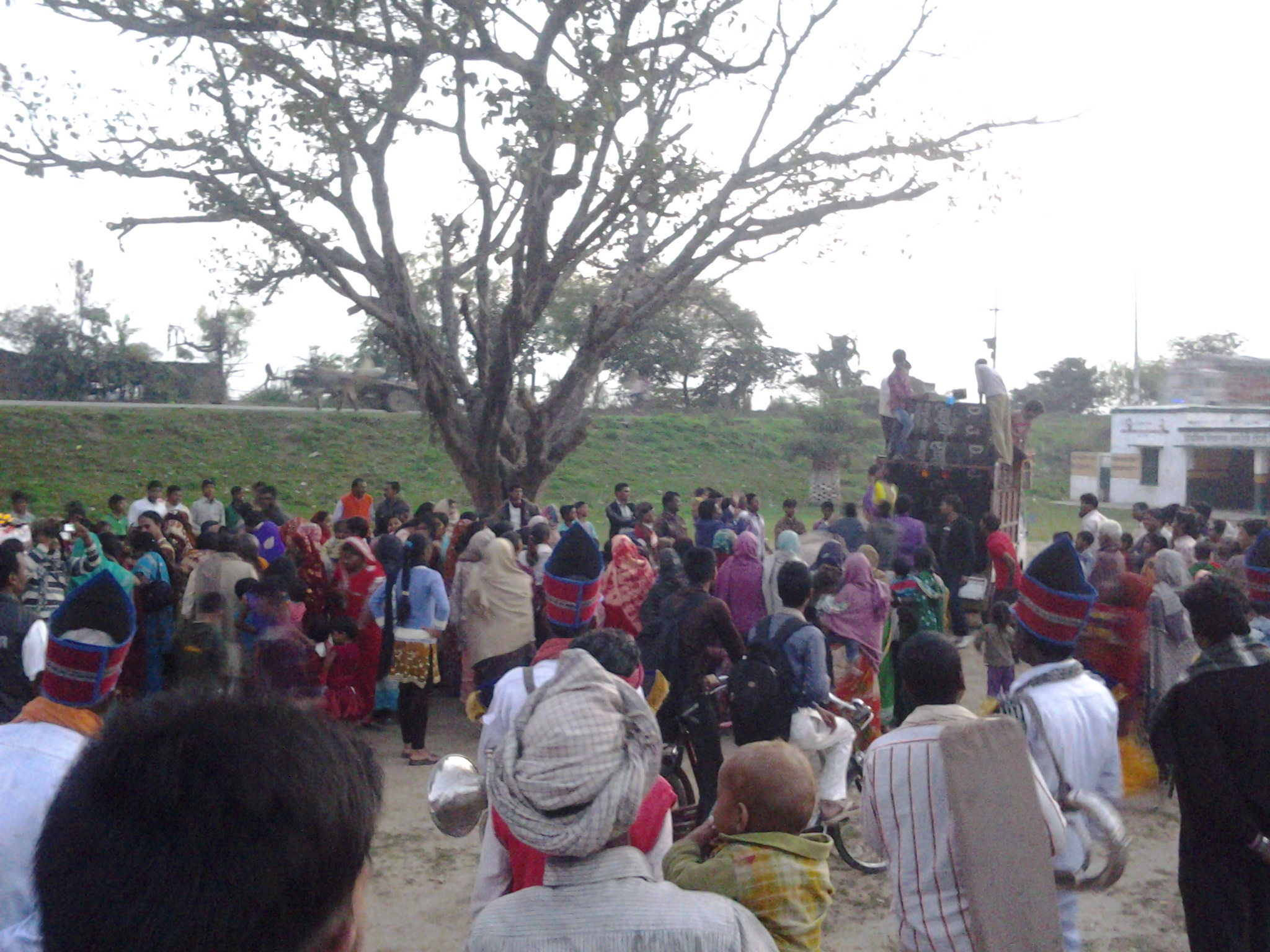 GALLARY